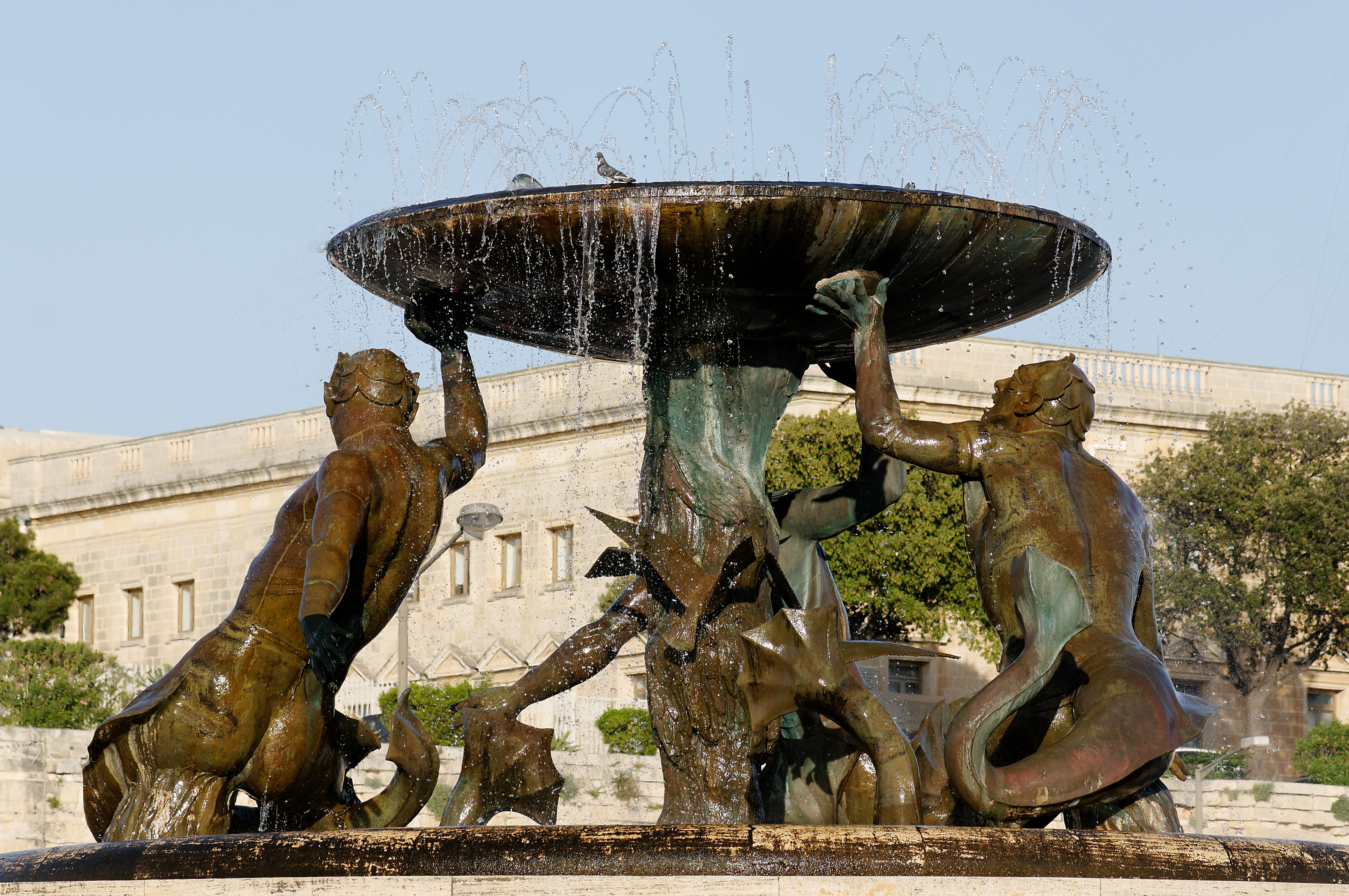 The Triton Fountain by Vincent Apap. Valletta, Malta.